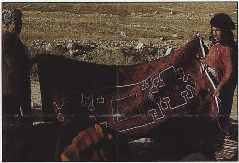 Kurdish couple displays typically colorful handmade carpet.